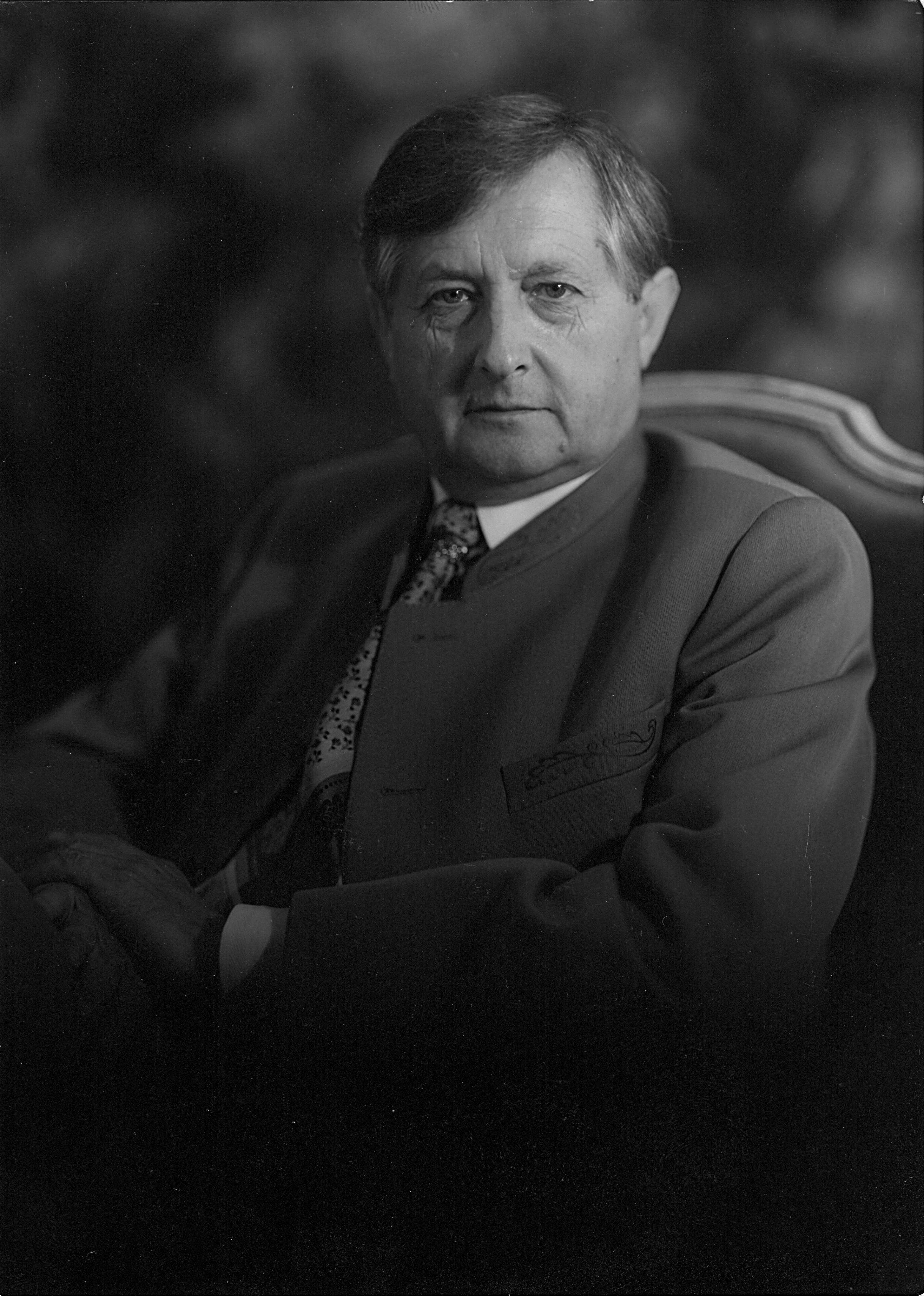 Anton Neuhäusler (Alias: Franz Ringseis)